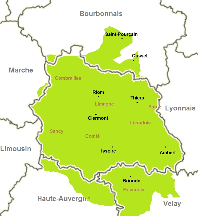 Map of Basse-Auvergne. Carte approximative de Basse-Auvergne. Selon la carte de Rigobert - 1786.